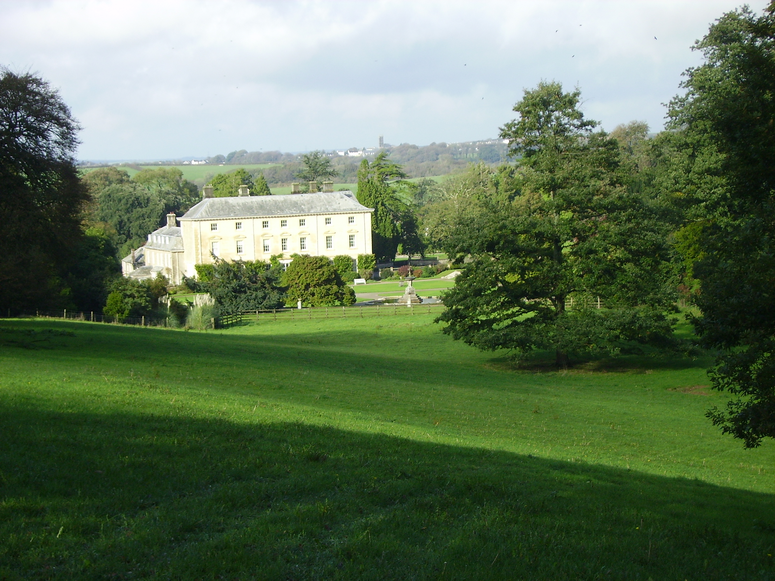 Pencarrow House